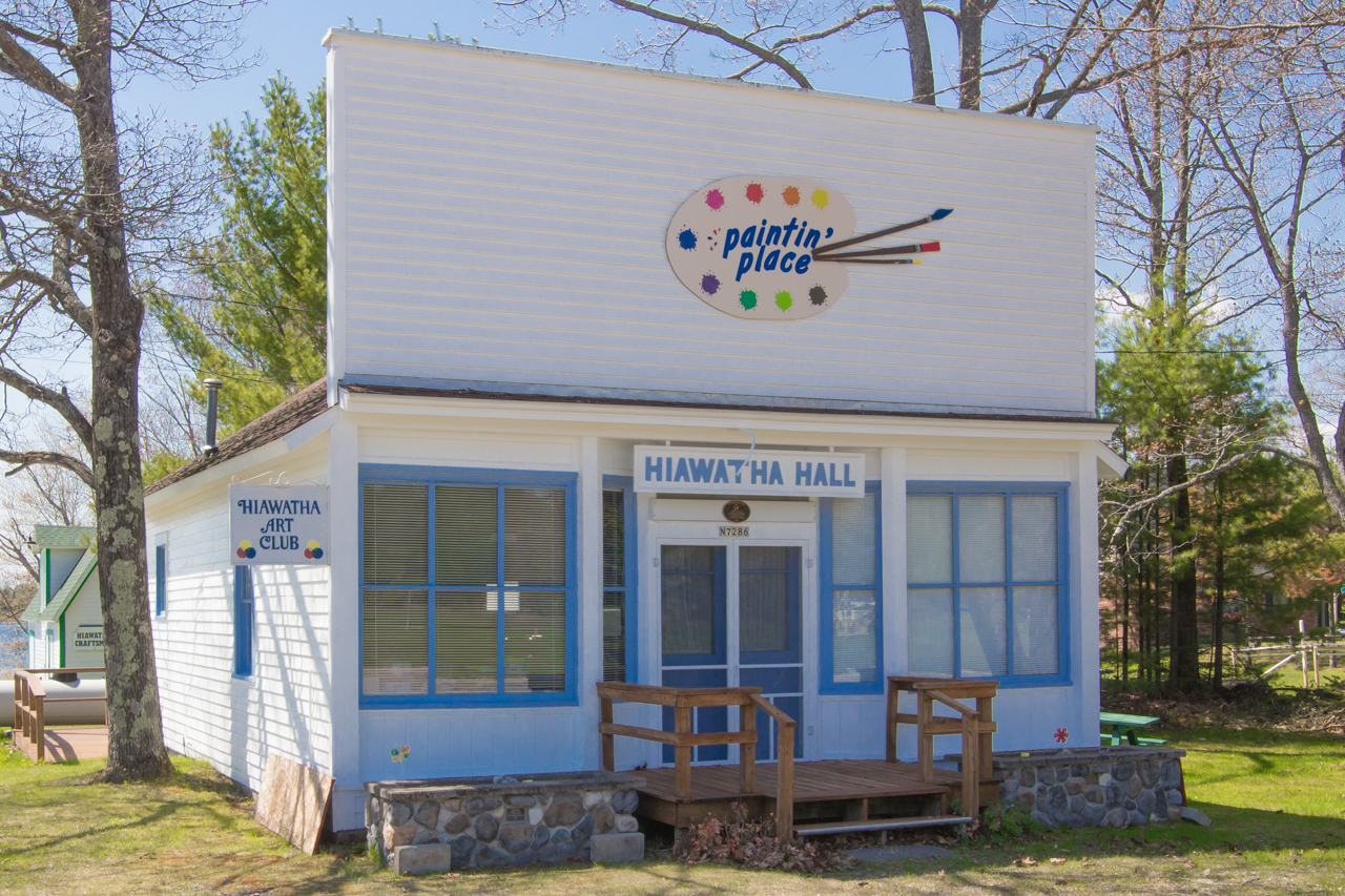 Hiawatha Sportsman Club Commisary